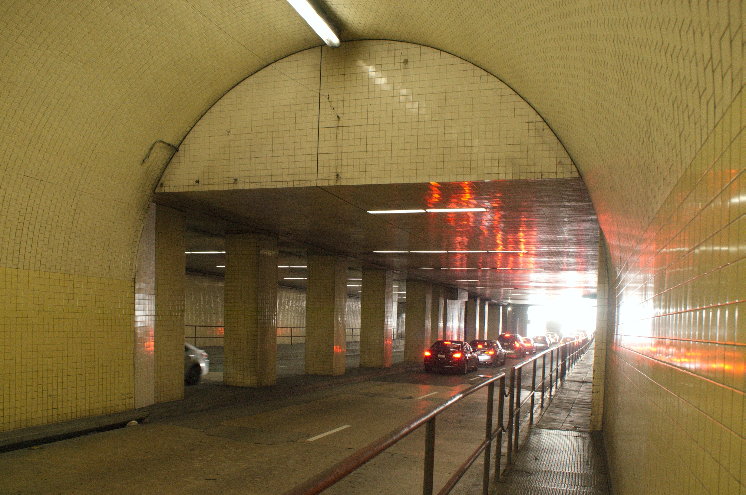 There it is from the other side - I think the ceiling got dropped to accommodate the health center on top.